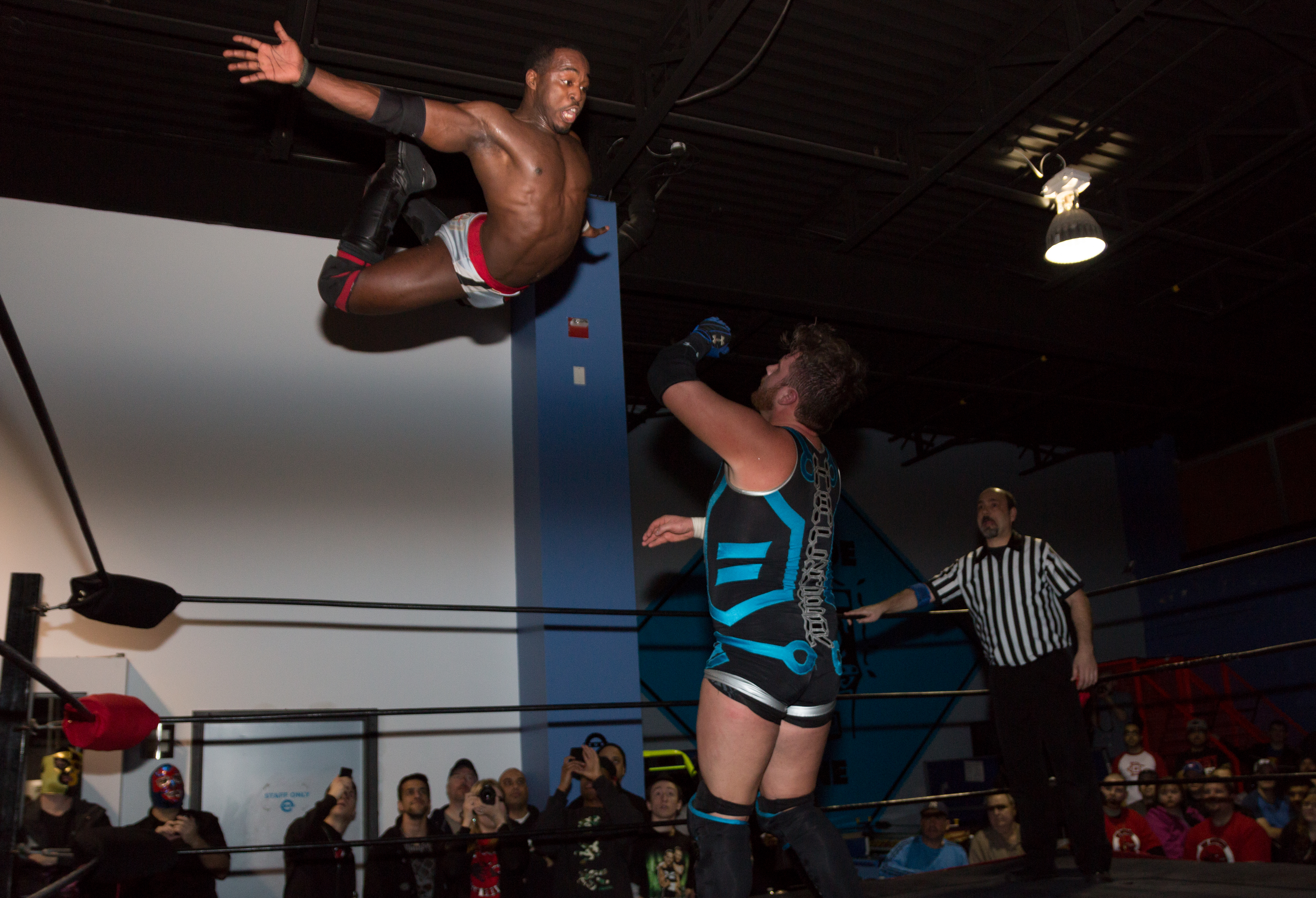 Independent wrestler ACH executing a diving splash onto "Hacker" Scotty O'Shea at a Smash Wrestling show in Etobicoke, ON